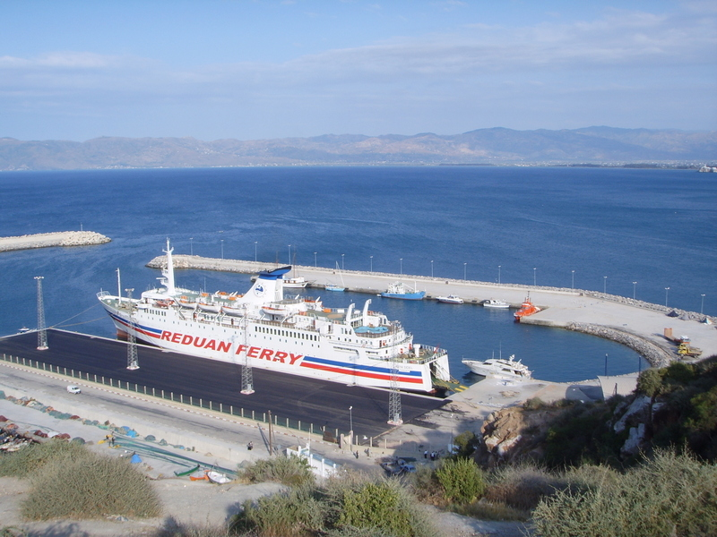 Reduan Ferry, in Port of Al Hoceima